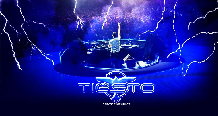 Tiesto and logo in 2012